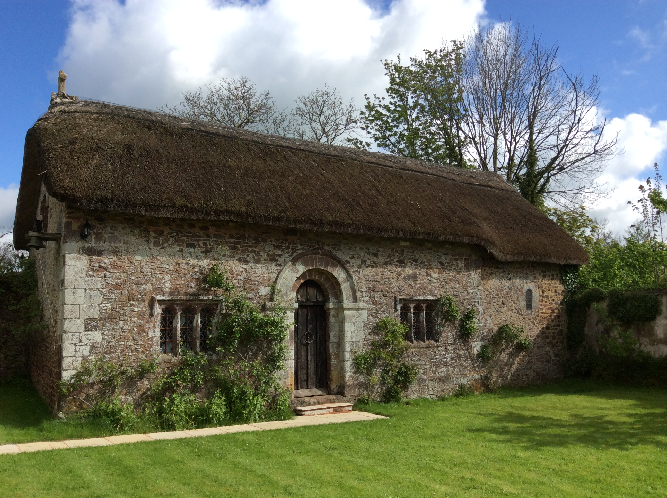 The Chapel at Bickleigh Castle, reputed to be Saxon